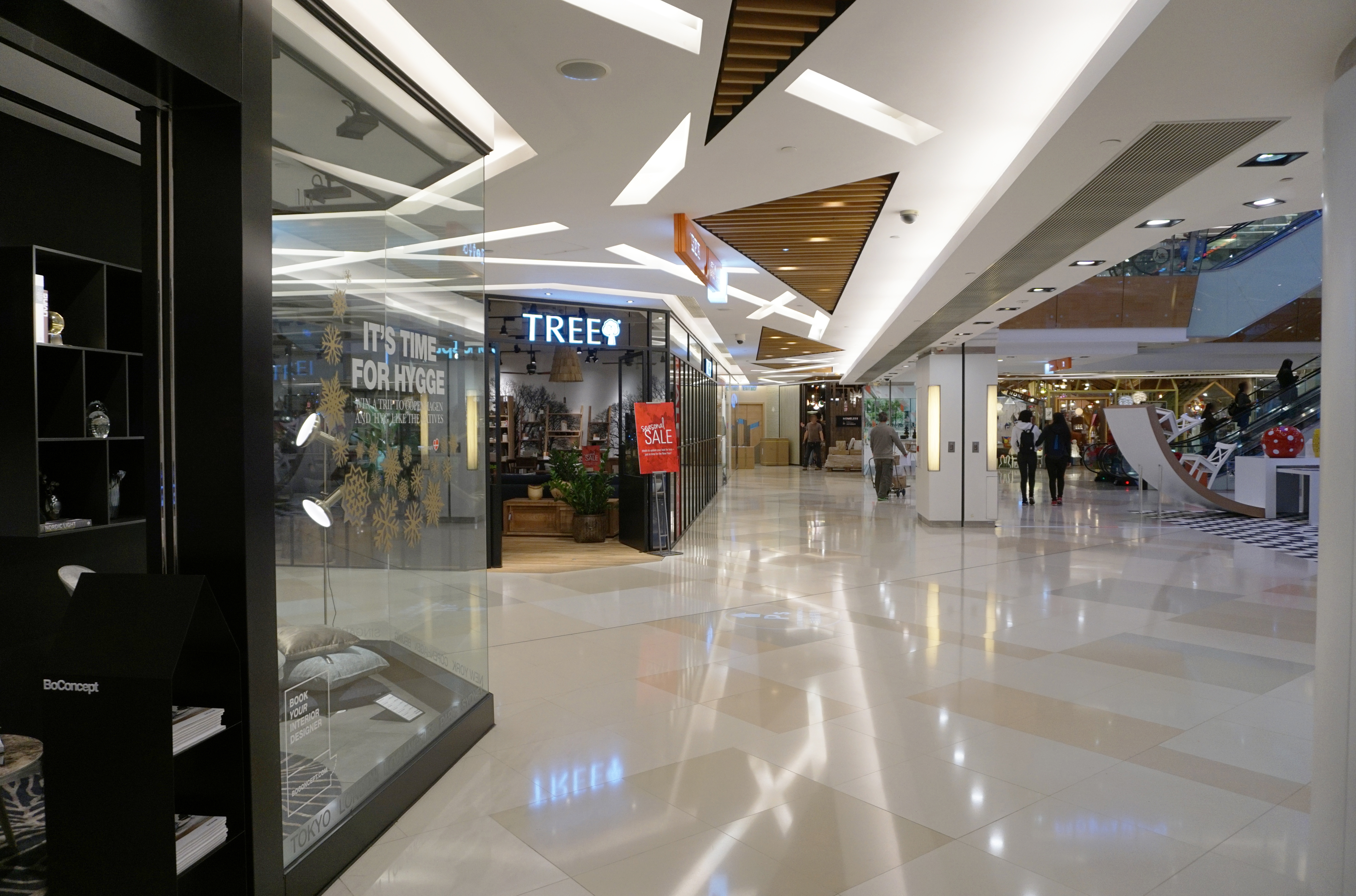 HomeSquare in Shatin, Hong Kong.